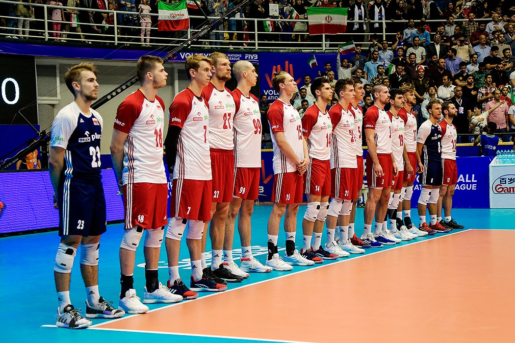 Poland men's national volleyball team in a match against Iran men's national volleyball team during 2019 FIVB Volleyball Men's Nations League in Ardabil, Iran.